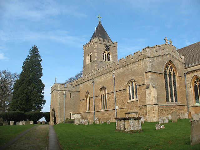 All Saints, Turvey: south aisle The church is Grade 1 listed. Parts of it date back to the 13th century but the south aisle was added by Sir G.G. Scott in the 19th century.